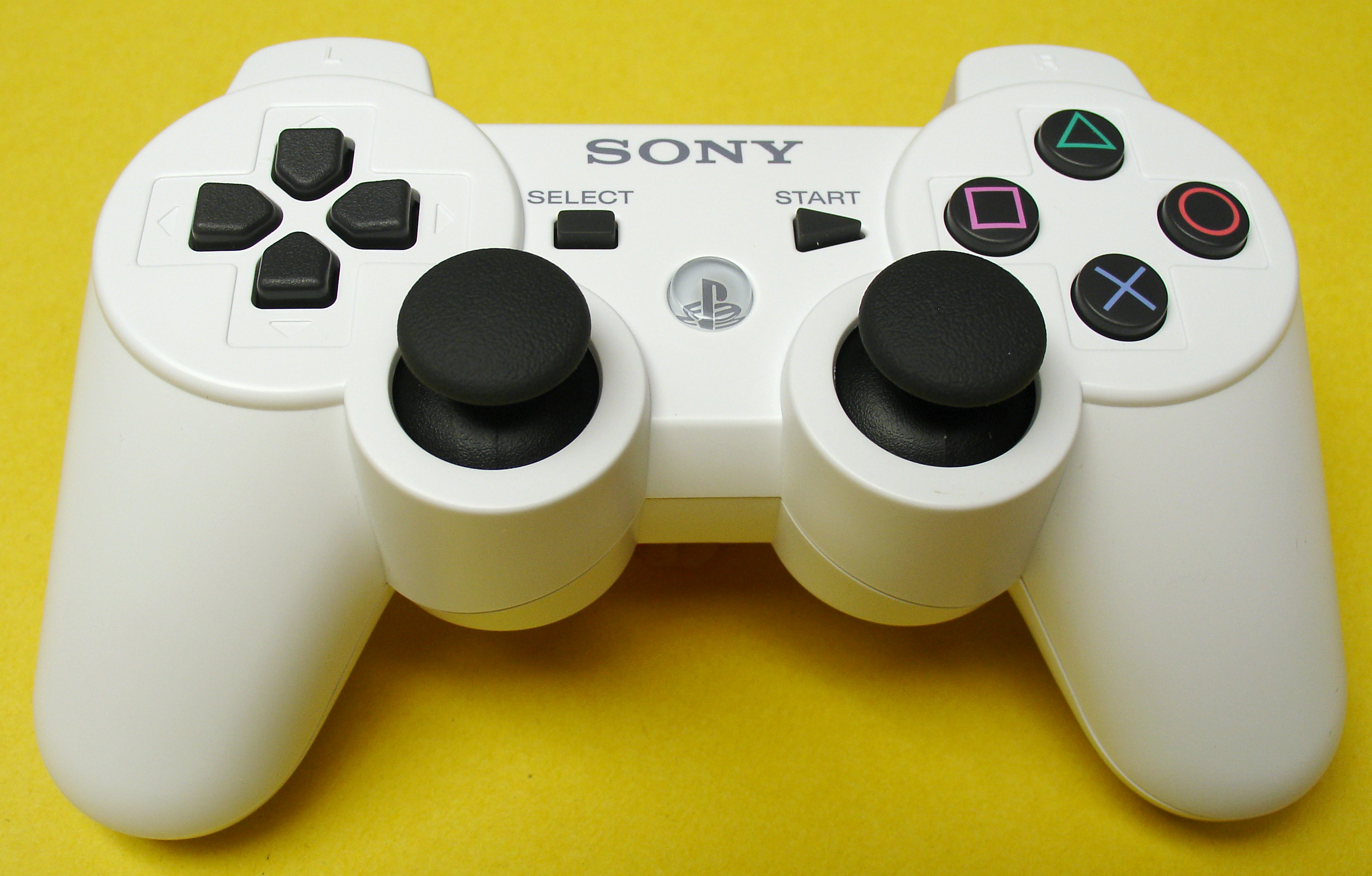 Ceramic White Sony DualShock 3 controller (JPN model), viewed from front.